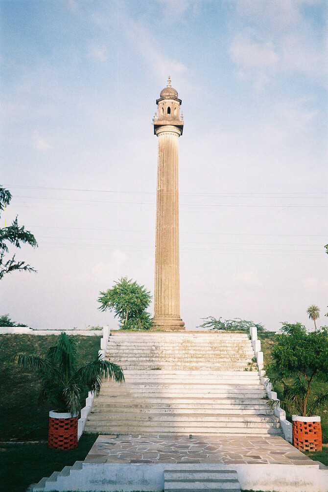 Tower at La Martiniere Lucknow in Lucknow